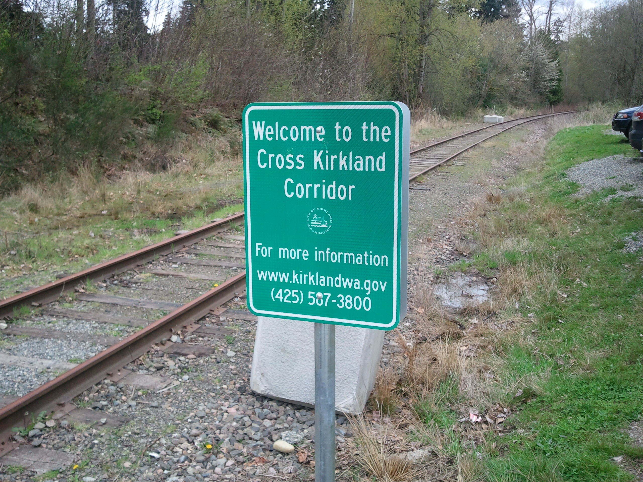 Sign marking the Cross Kirkland Corridor rail trail in Kirkland, Washington. Taken at 110th Avenue NE near Peter Kirk Elementary, looking north.